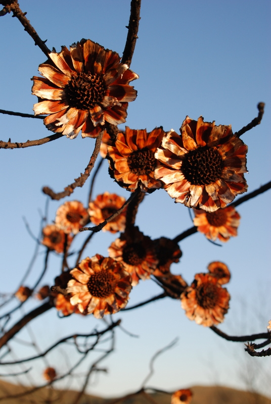 Proteas (Protea) after a fire